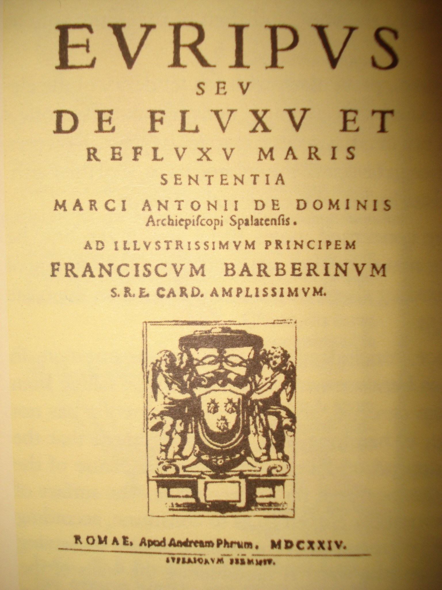 Markantun de Dominis or Marko Antun Gospodnetić (Latin: Marcus Antonius de Dominis), Croatian theologist, philosopher, physicist, mathematician and writer: "Euripus or about the high and low tide of the sea" - title page; published in Rome in 1624.